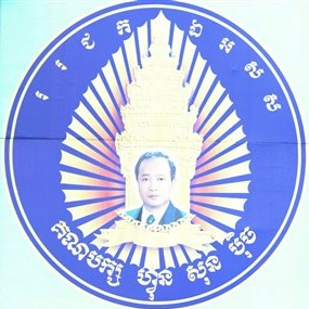 Former Party Logo of FUNCINPEC, used between 1992-2006